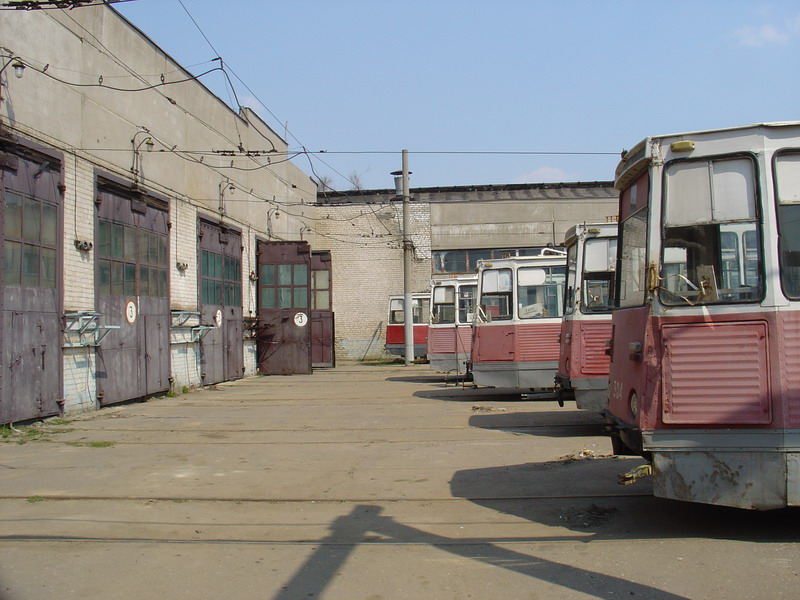 KTM-5 tramcars in depot, Voronezh.